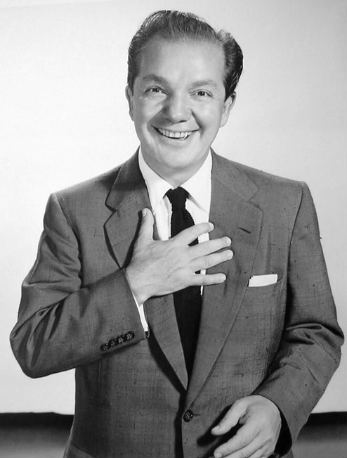 Photo of comedian Joey Adams as the host of the radio program Spend a Million.